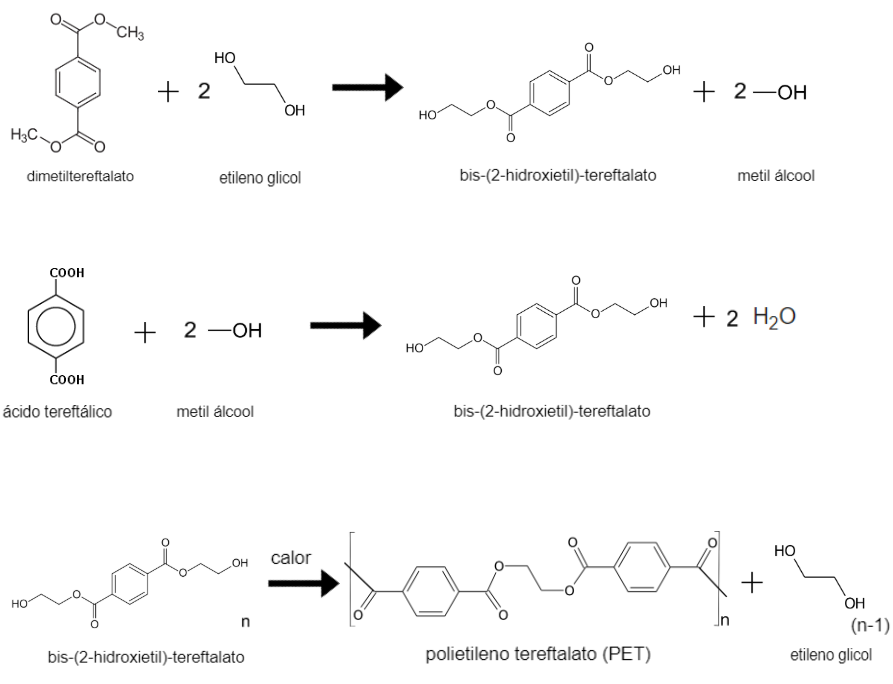 reactions to obtain PET polymer